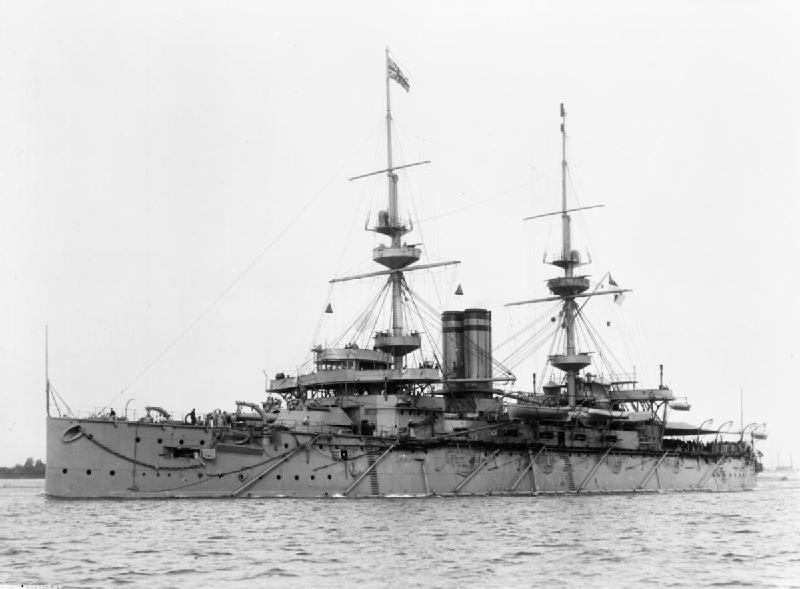 British battleship HMS HANNIBAL